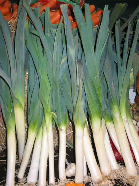 Poireaux